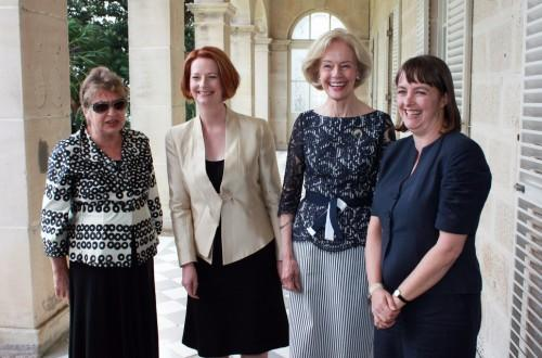 Left to right: Retired Justice of the High Court (and first female Justice), The Hon. Mary Gaudron AC QC, 27th, and first female, Prime Minister of Australia, The Hon. Julia Gillard MP 25th, and first female, Governor-General of Australia, Dame Quentin Alice Louise Bryce 34th, and first female, Attorney-General, The Hon. Nicola Roxon MP. Informal meeting after Governor-General's swearing-in ceremony.